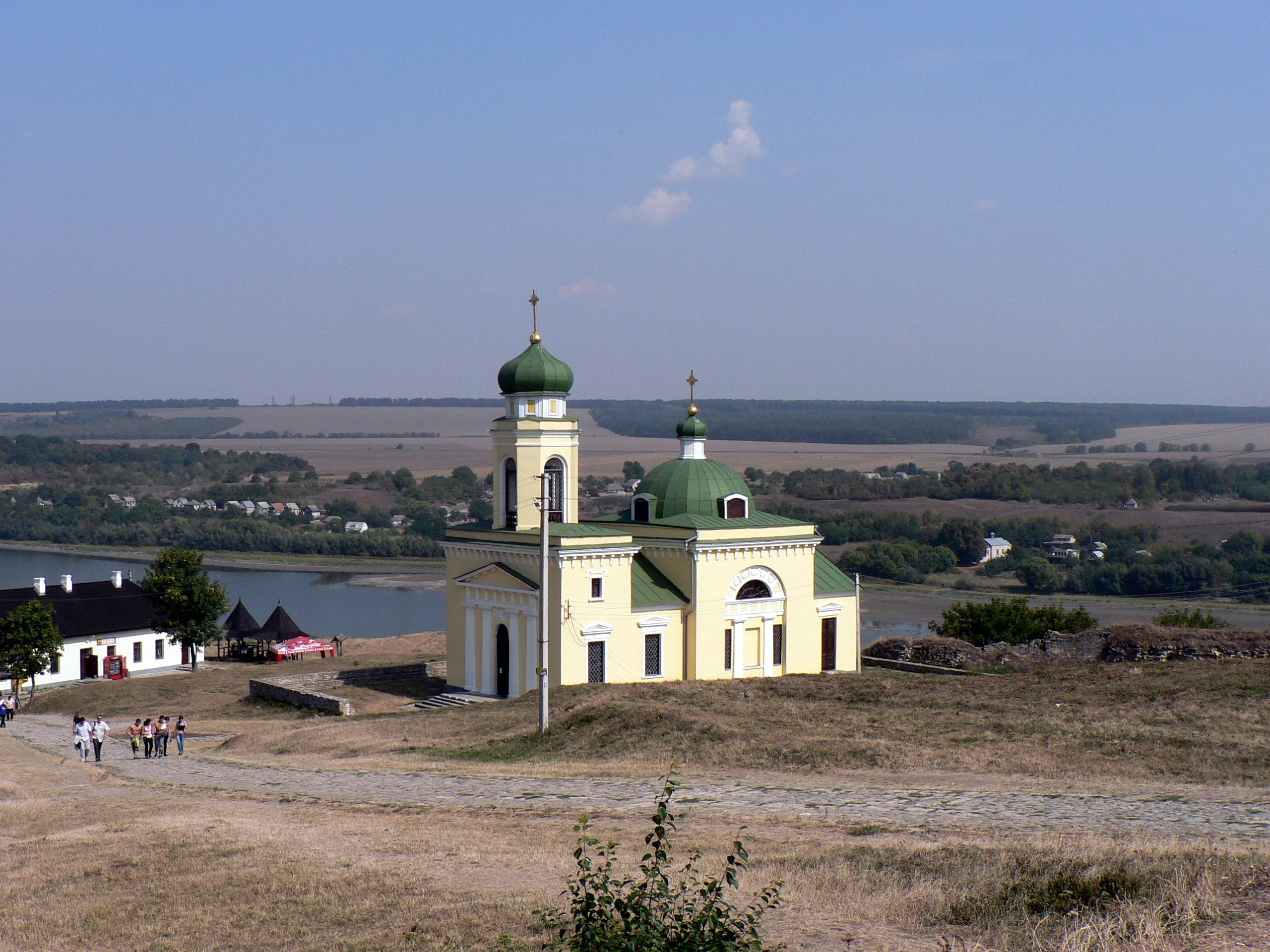 Khotyn Fortress